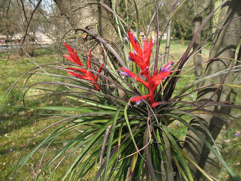 Tillandsia chlorophylla in cultivation at the Botanical Garden of Heidelberg, Germany.